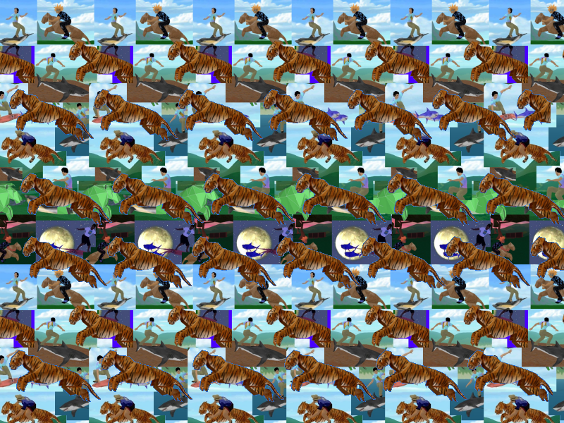 Autostereogram Tutorial Highlighted Patterns Description: The brain is surprisingly capable of instantly matching hundreds of pattern repeated at different intervals in order to recreate correct depth information for each pattern. This autostereogram contains some 50 tigers of varying size, repeated at different intervals. Despite the apparent chaotic arrangement of patterns, the brain is able to place every tiger icon at its proper depth. Source: Fred Hsu, March 2005.